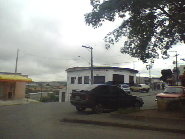 Jd. Luciana in Itaquaquecetuba